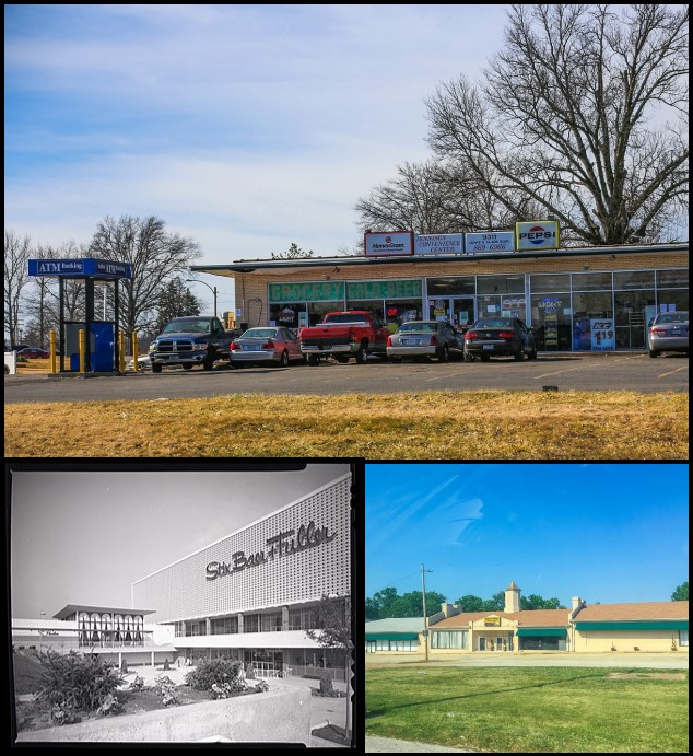 Collection of three images related to Jennings, MO